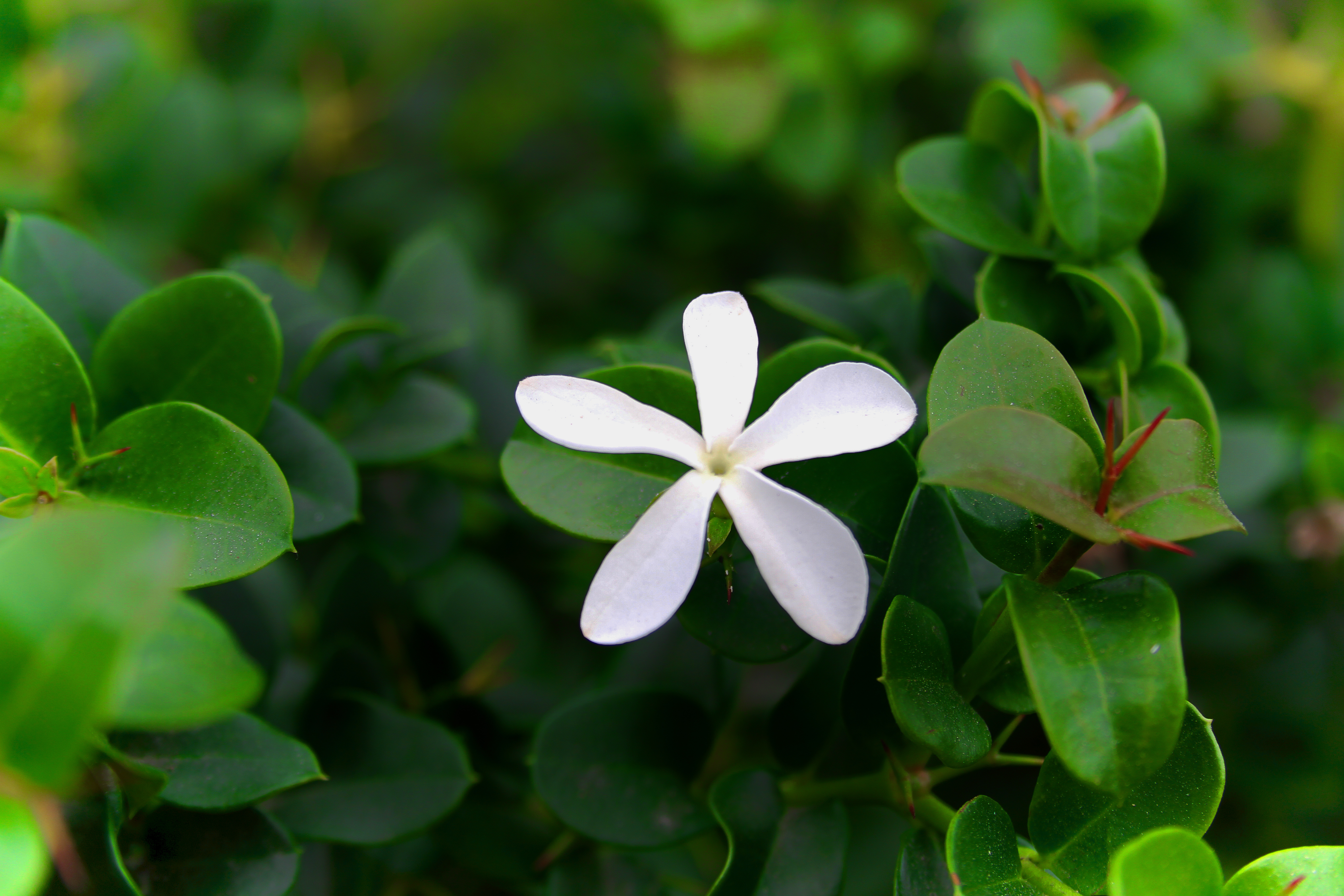 Close-up image of Carissa Macrocarpa flower. Edited with Polarr.